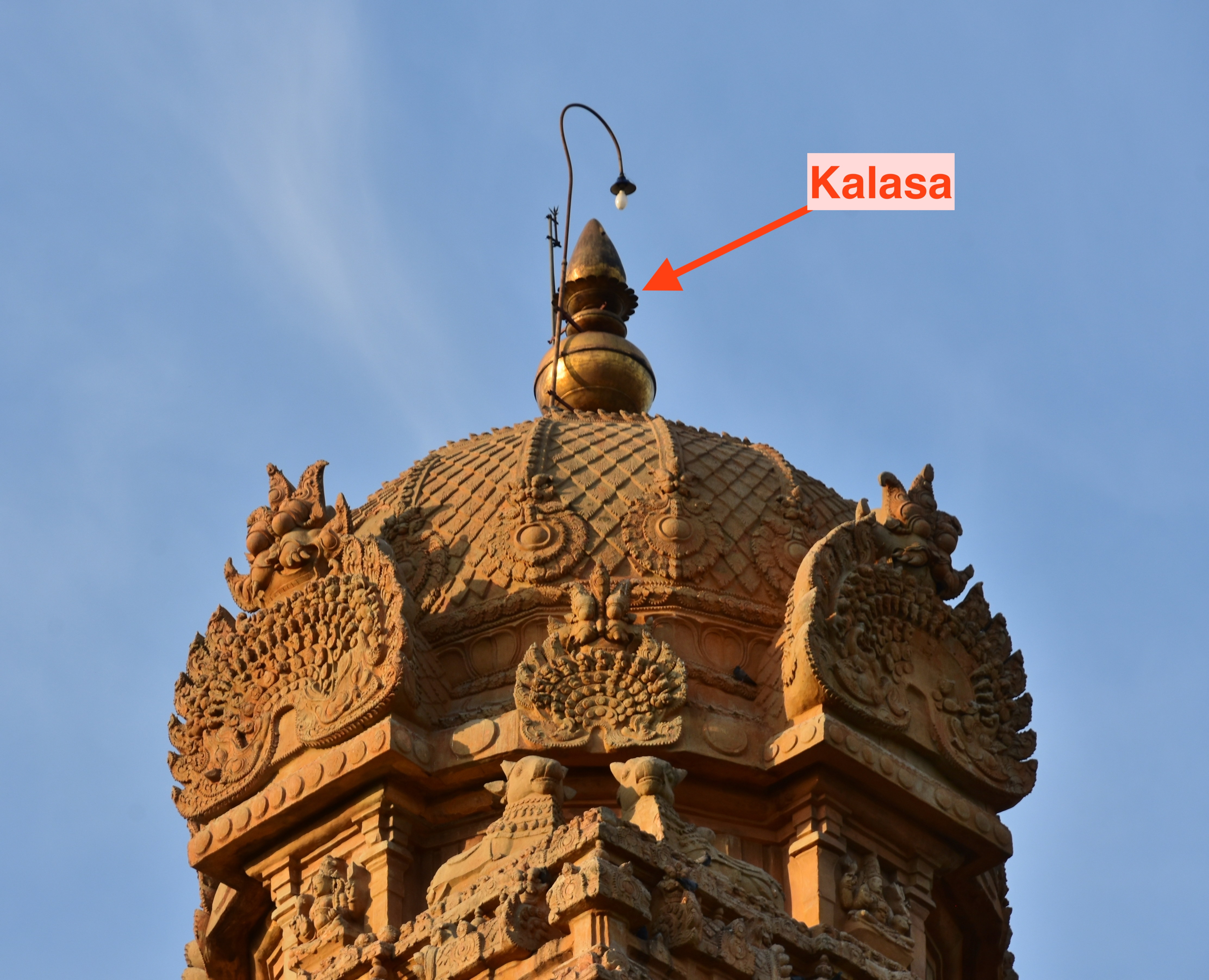 A Kalasa or Kalasha is the pinnacle element in the form of a vase finial of a temple's tower, a cupola or pitcher. It is found in Hindu and Jain rites-of-passage ceremonies, particularly related to babies and weddings. This is a derivative work on 1010 CE Brihadishwara Shiva Temple, a view of kalasa on tower, built by Rajaraja I, Thanjavur Tamil Nadu India.jpg